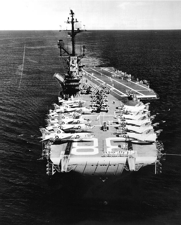 The U.S. Navy aircraft carrier USS Shangri-La (CVA-38) underway at sea off Mayport, Florida (USA), in August 1960. Shangri-La, with Carrier Air Group Ten (CAG-10) embarked, was deployed to the Atlantic Ocean from 6 September to 20 October 1960. Aircraft parked on the forward flight deck include Vought F8U-1 and Douglas F4D-1 fighters, Douglas A4D-2 and Douglas AD-6 attack planes.